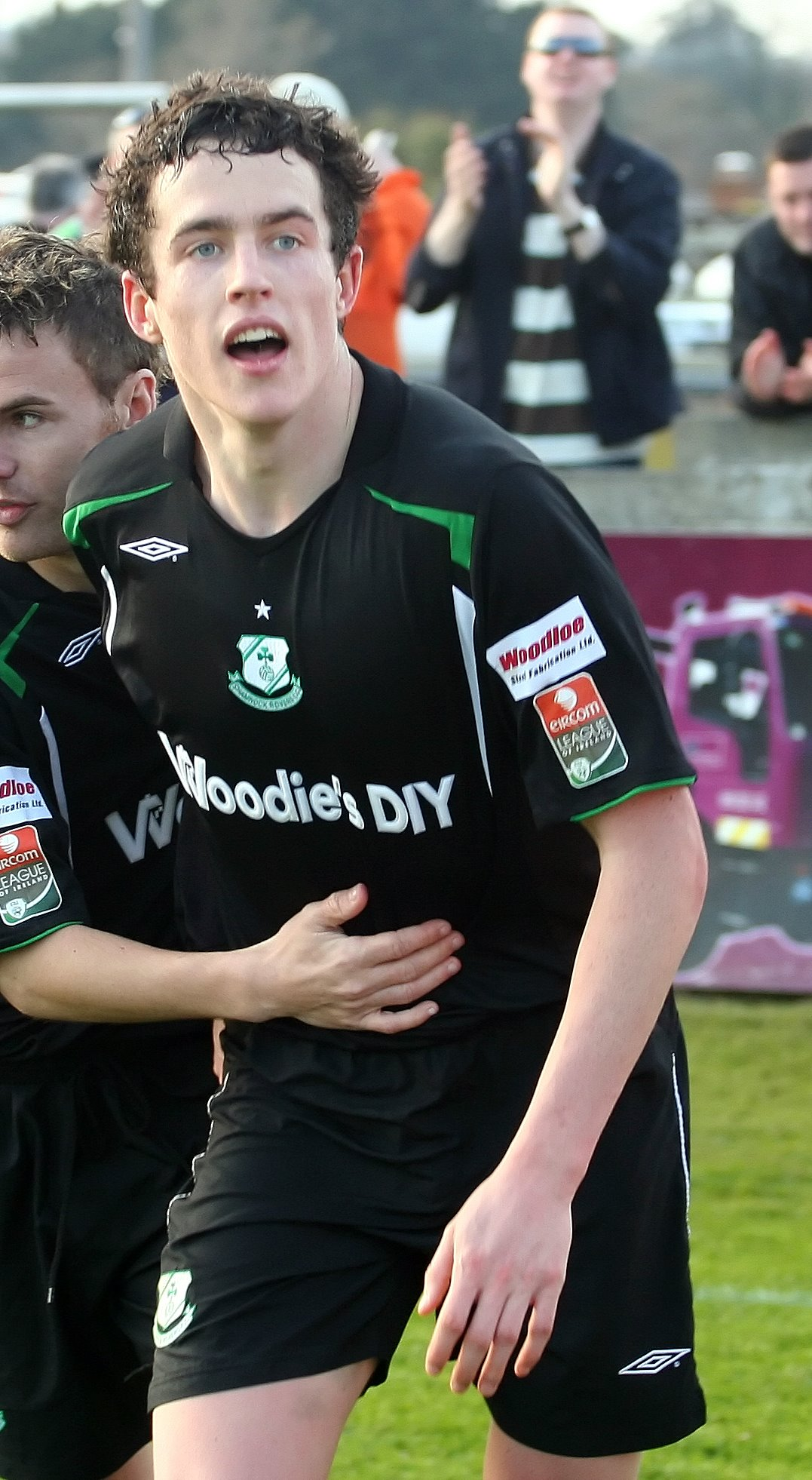 Taken after Tadhg scored his second goal against Bray 6th April 3007